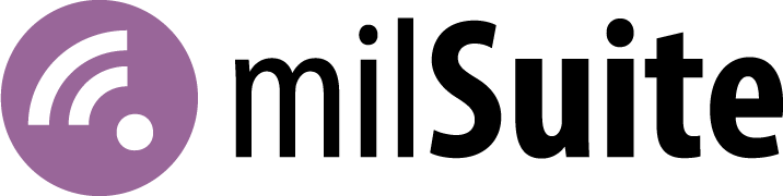 Offical text-based logo for Department of Defense product milSuite